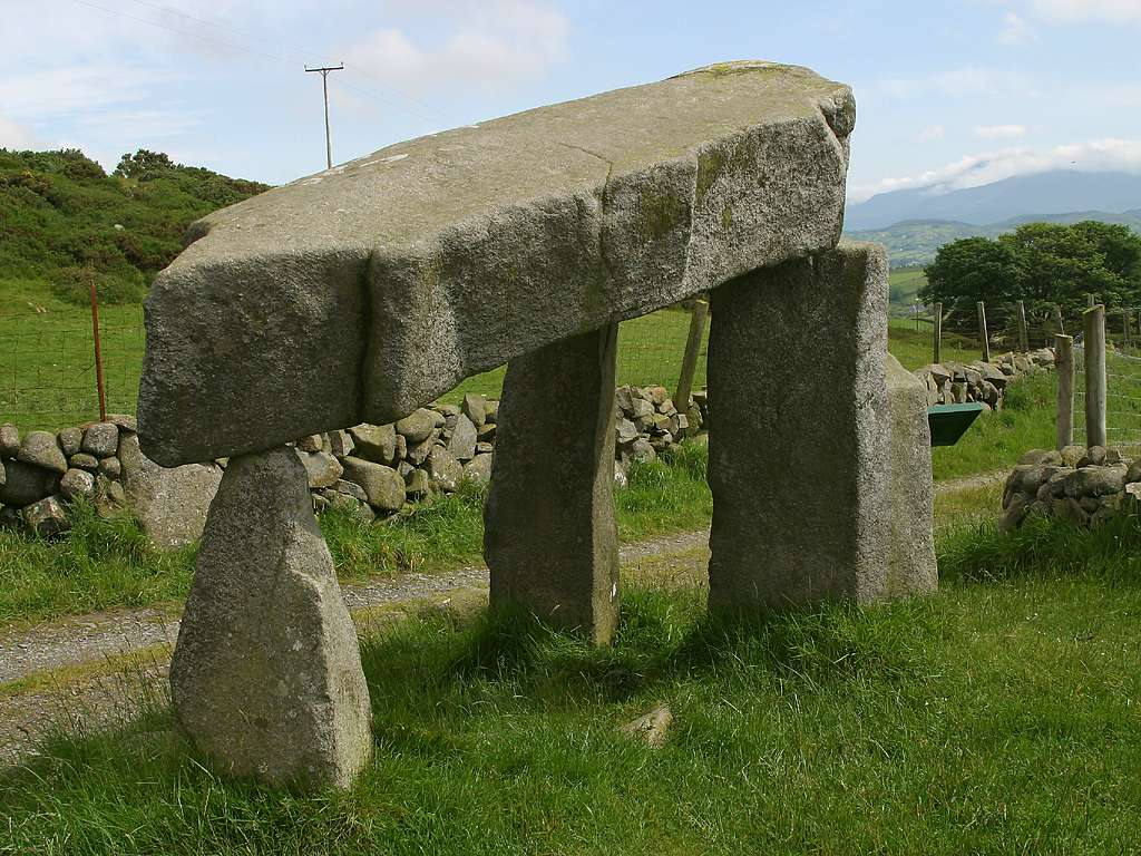 Legananny Dolmen, County Down, Ireland